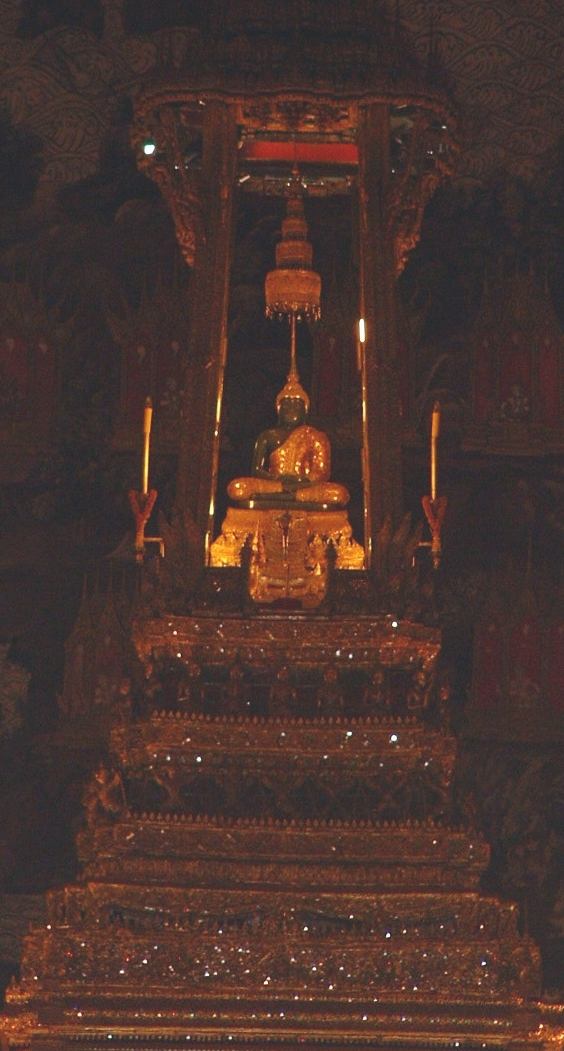 Emerald buddha in rainy season attire. Photograph by Gakuro, Nov, 2005